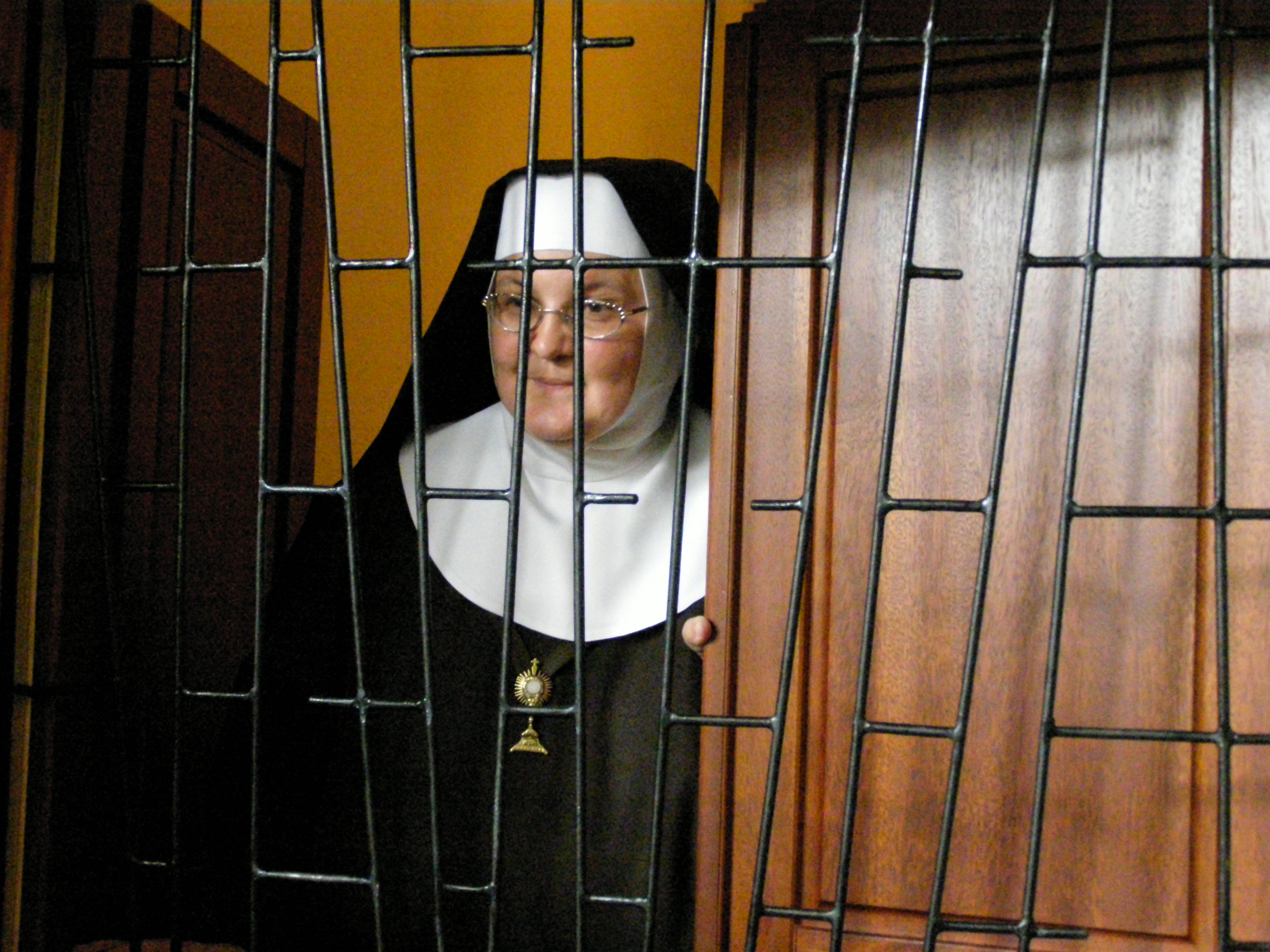 Nun of the Order of Poor Clares